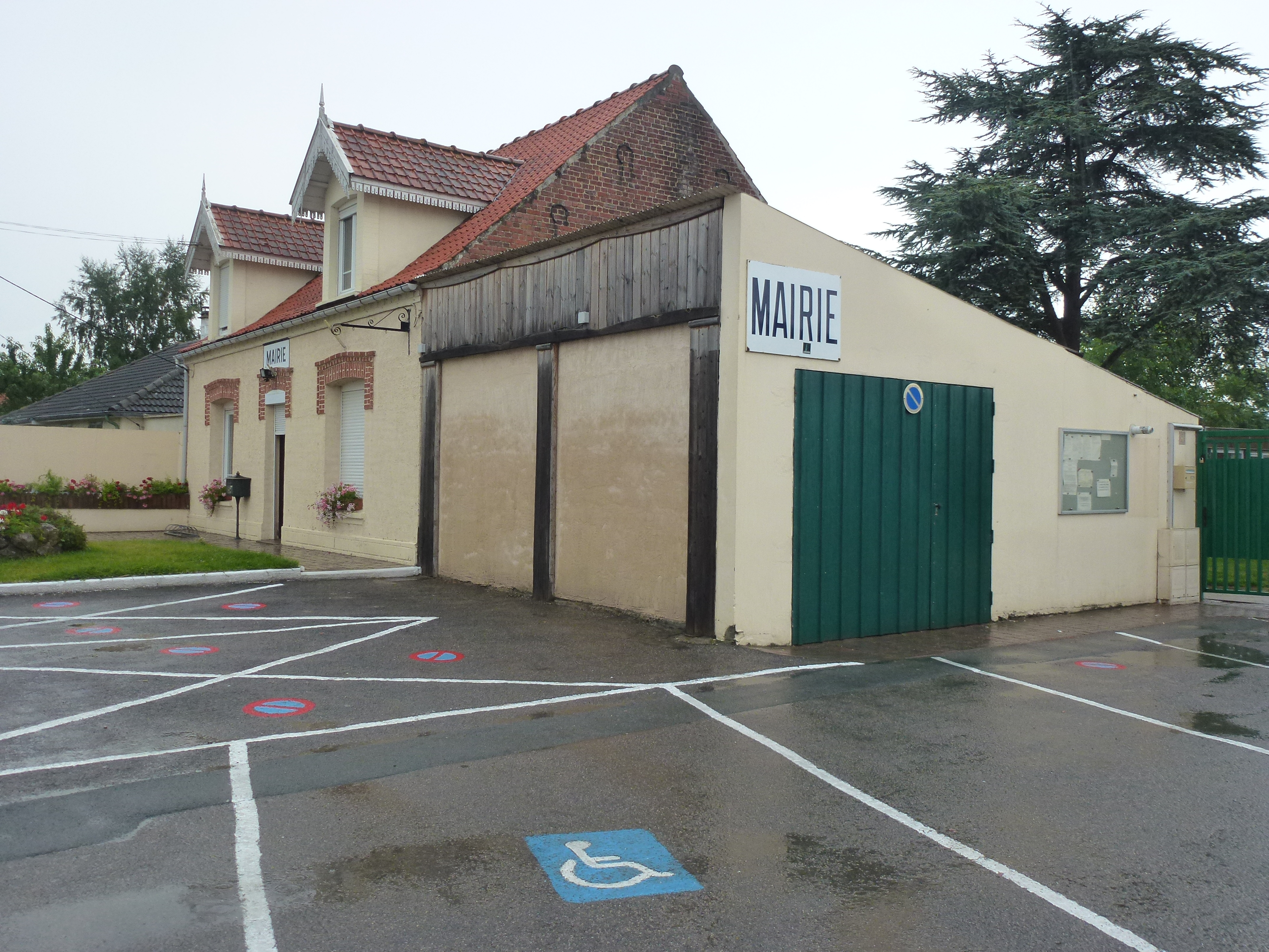 Andres (Pas-de-Calais) mairie